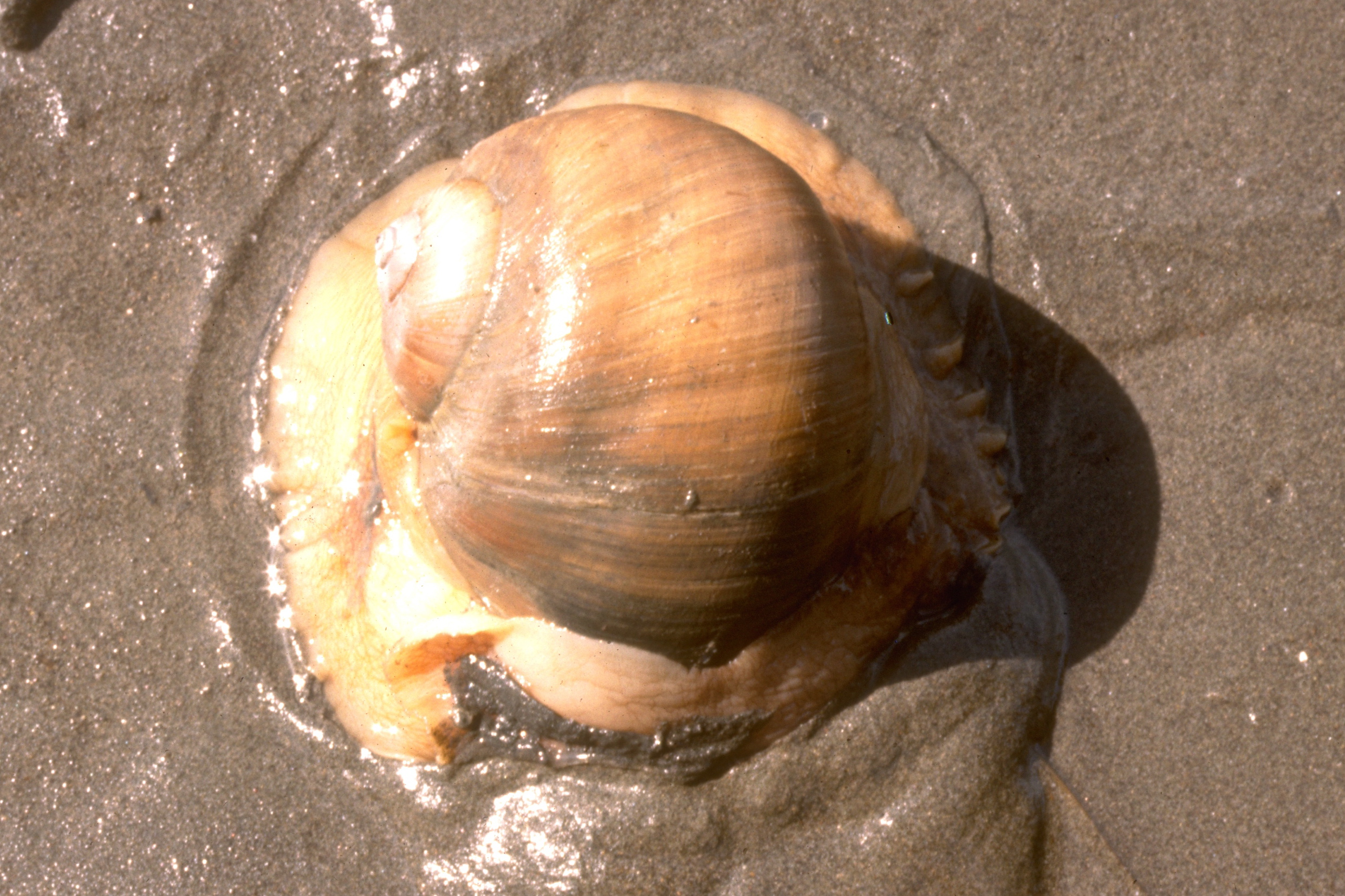 Photo of Neverita lewisii (Gould, 1847) The body is so large on this gastropod that the largest snail in the mud flats buries its body to protect it from birds. All you will most likely see will be the top 1/3 part of the shell when the tide goes out.